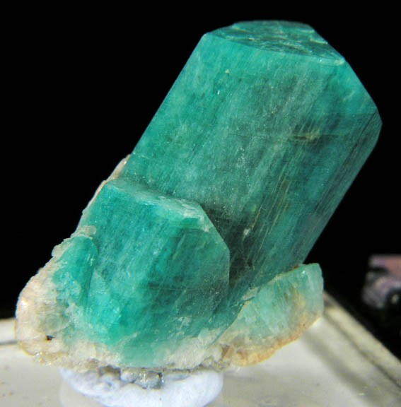 Microcline (Var.: Amazonite), Albite Locality: R. A. Kosnar claim, Yucca Hill, Steven's Ranch, Lake George, Park County, Colorado, USA (Locality at ) Size: 2.6 x 1.7 x 1.4 cm. This is a classic display specimen from one of the most storied and well known districts in Colorado. The pegmatites near the Lake George area of Colorado have produced what collectors and dealers know to be the finest Amazonite specimens from the standpoint of color, quality, wonderful display specimens and excellent associations. This particular specimen is a great display piece featuring sharp, well-formed, translucent, blue-green color Amazonite crystals aesthetically associated with minor white Albite. This specimen was collected over 30 years ago (August 1976), when Richard Kosnar found some of the finest color Amazonite from Colorado extant. Ex. Richard Kosnar Collection.